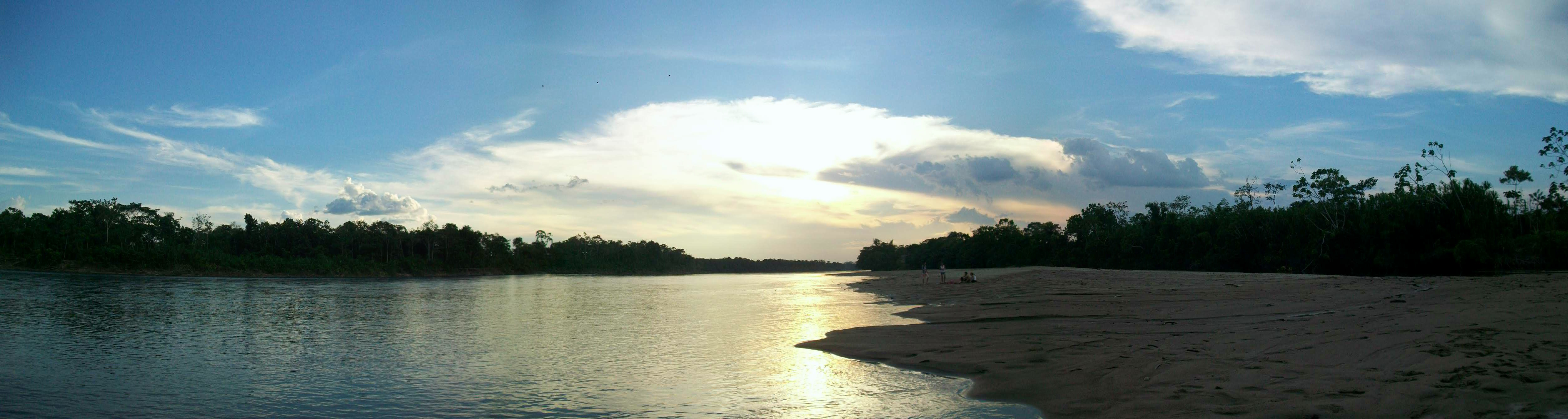 rio putumayo en un hermoso atardecer. puerto asis - colombia